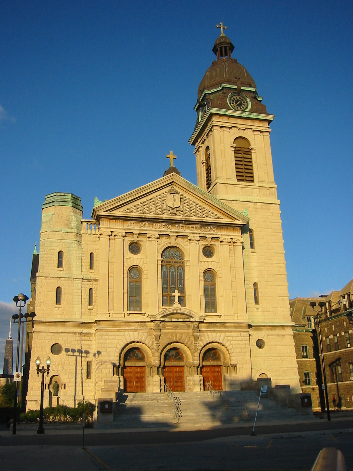 Saint John Cantius Catholic Church — in the West Side of Chicago, Illinois.